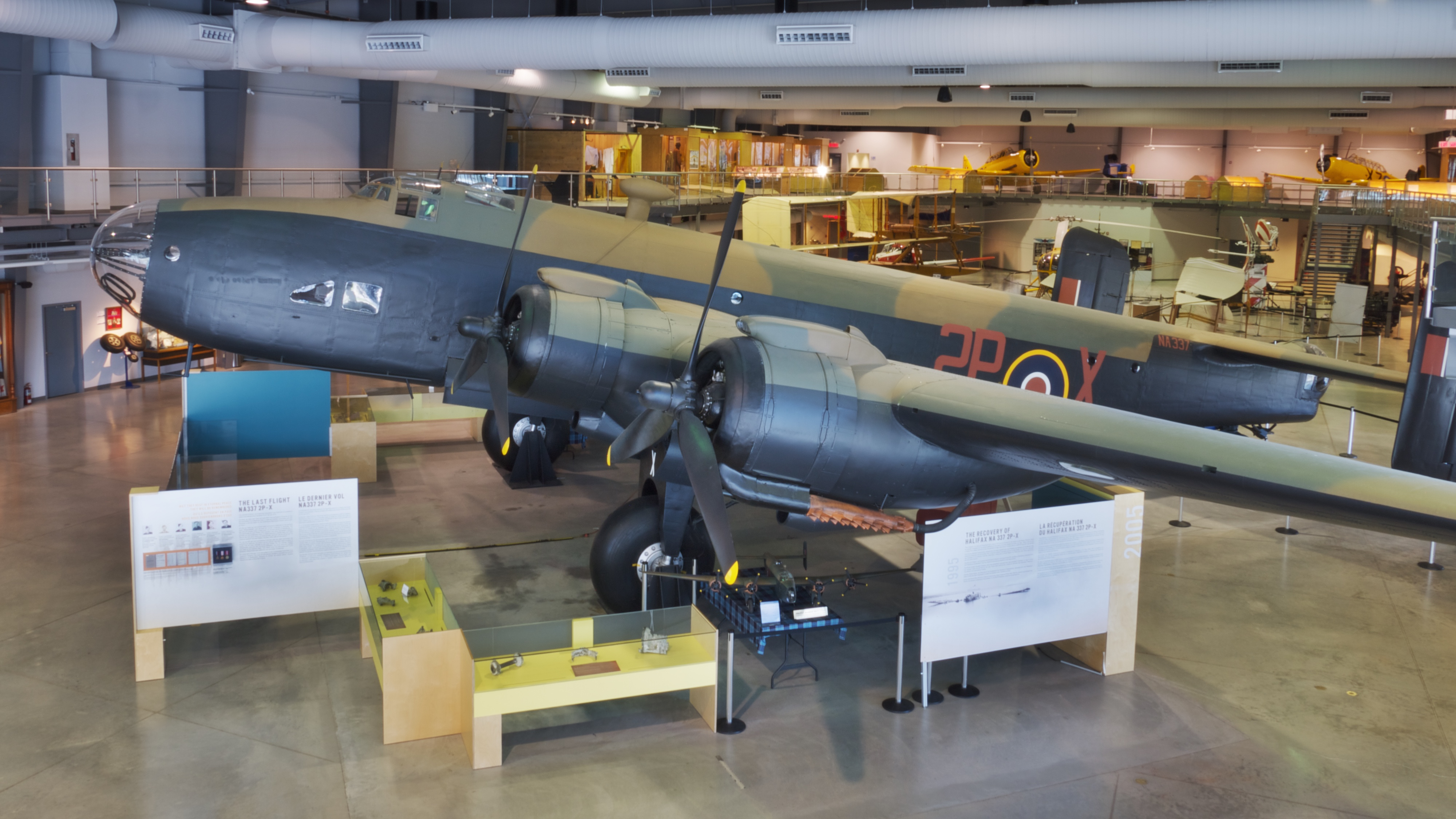 Halifax NA337 at National Air Force Museum of Canada in Trenton, Ontario.